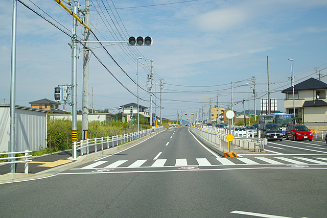 The Aichi Prefectural Road and Gifu Prefectural Road Route 15 in Shidami, Moriyama-ku, Nagoya City